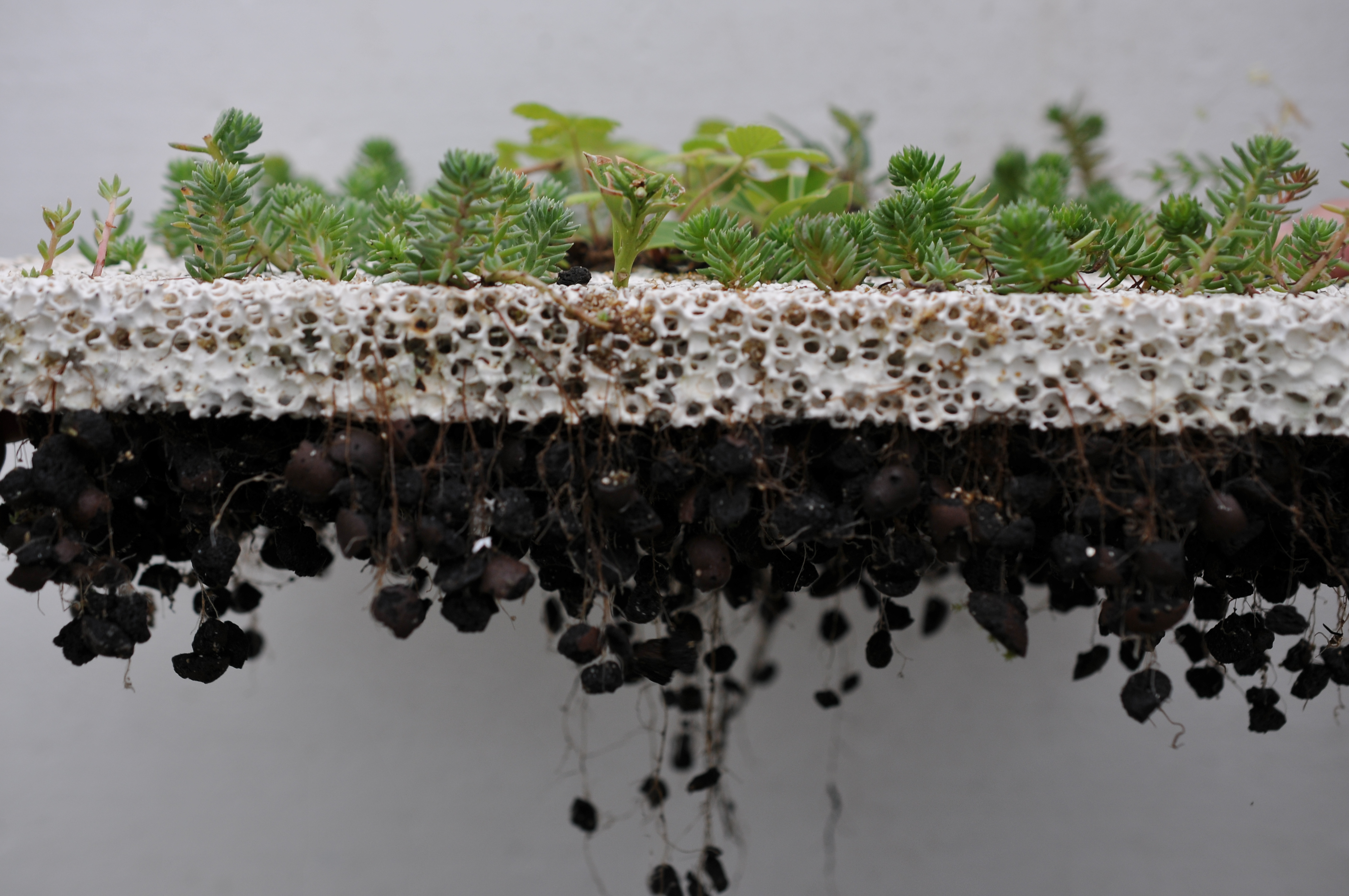 Principle of green envelope Skyflor